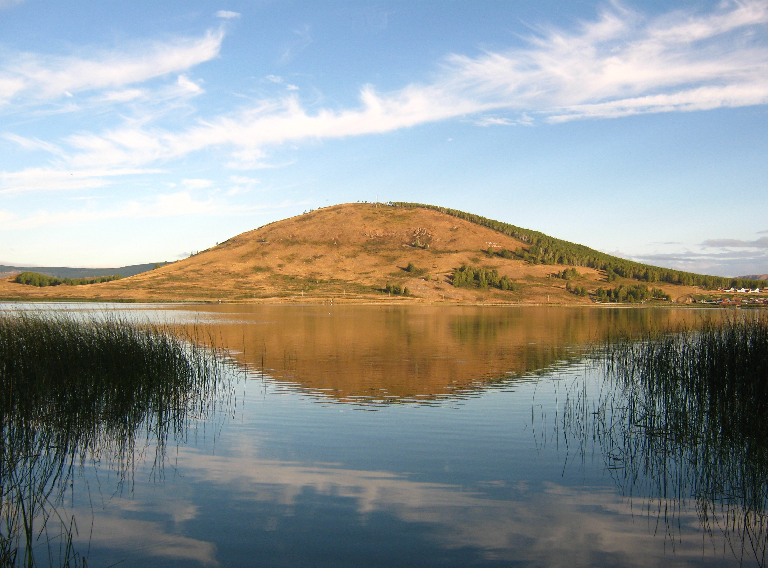 Sunrise. Aushku